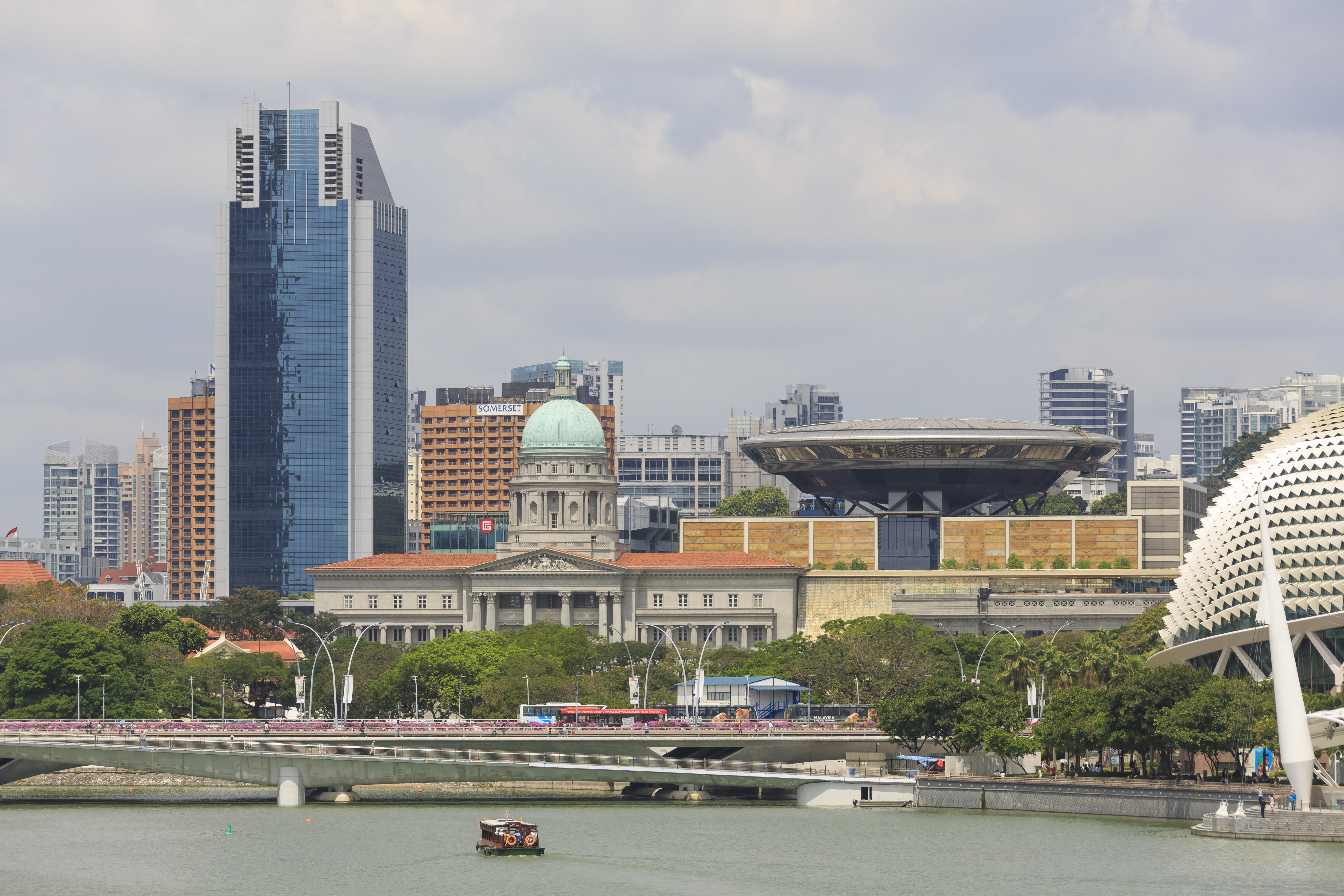 Singapore: Old Supreme Court Building among newer buildings such as the new Supreme Court Building, the High Street Center and Esplanade Theatre